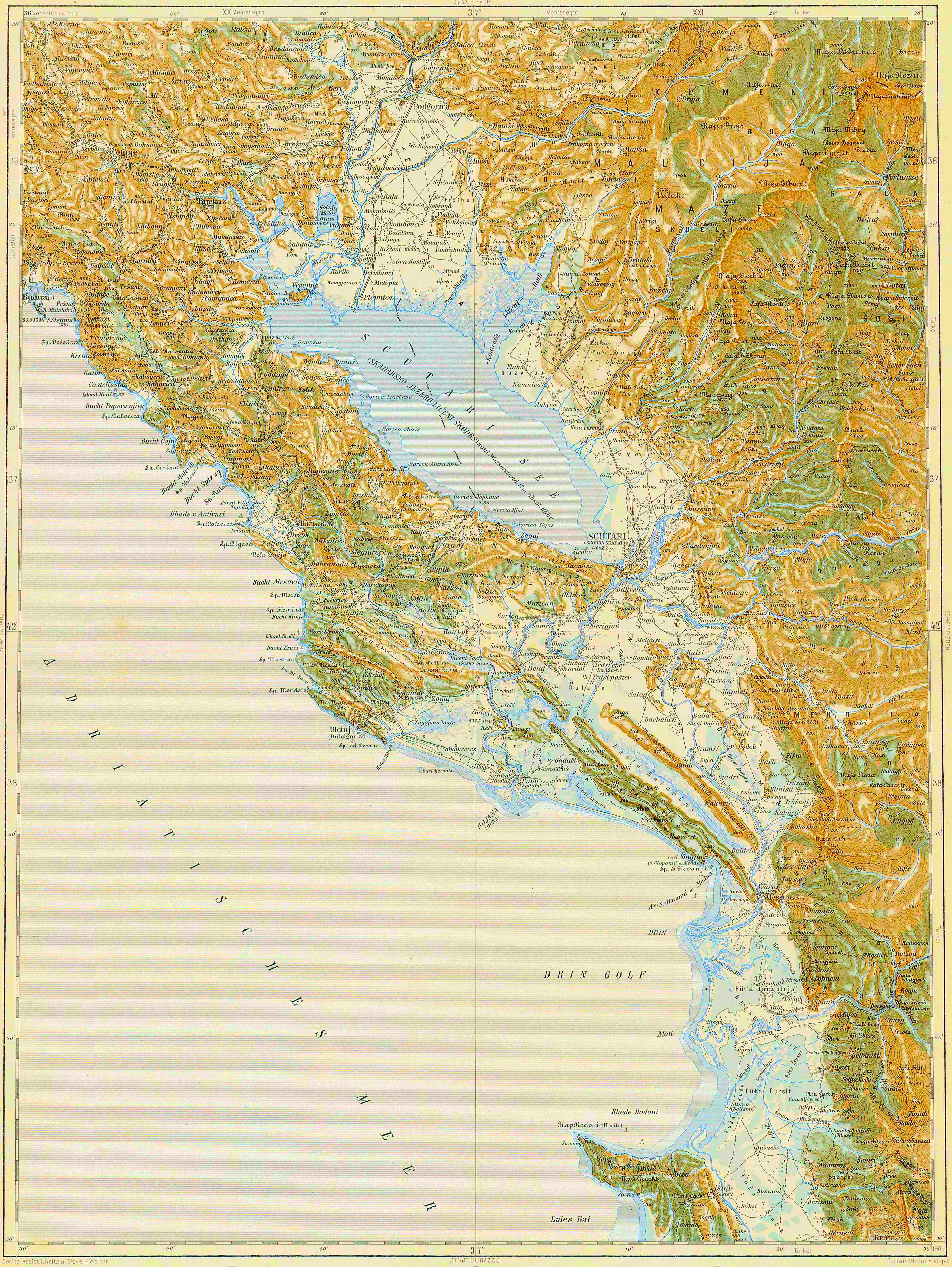 3rd Military Mapping Survey of Austria-Hungary - Scutari